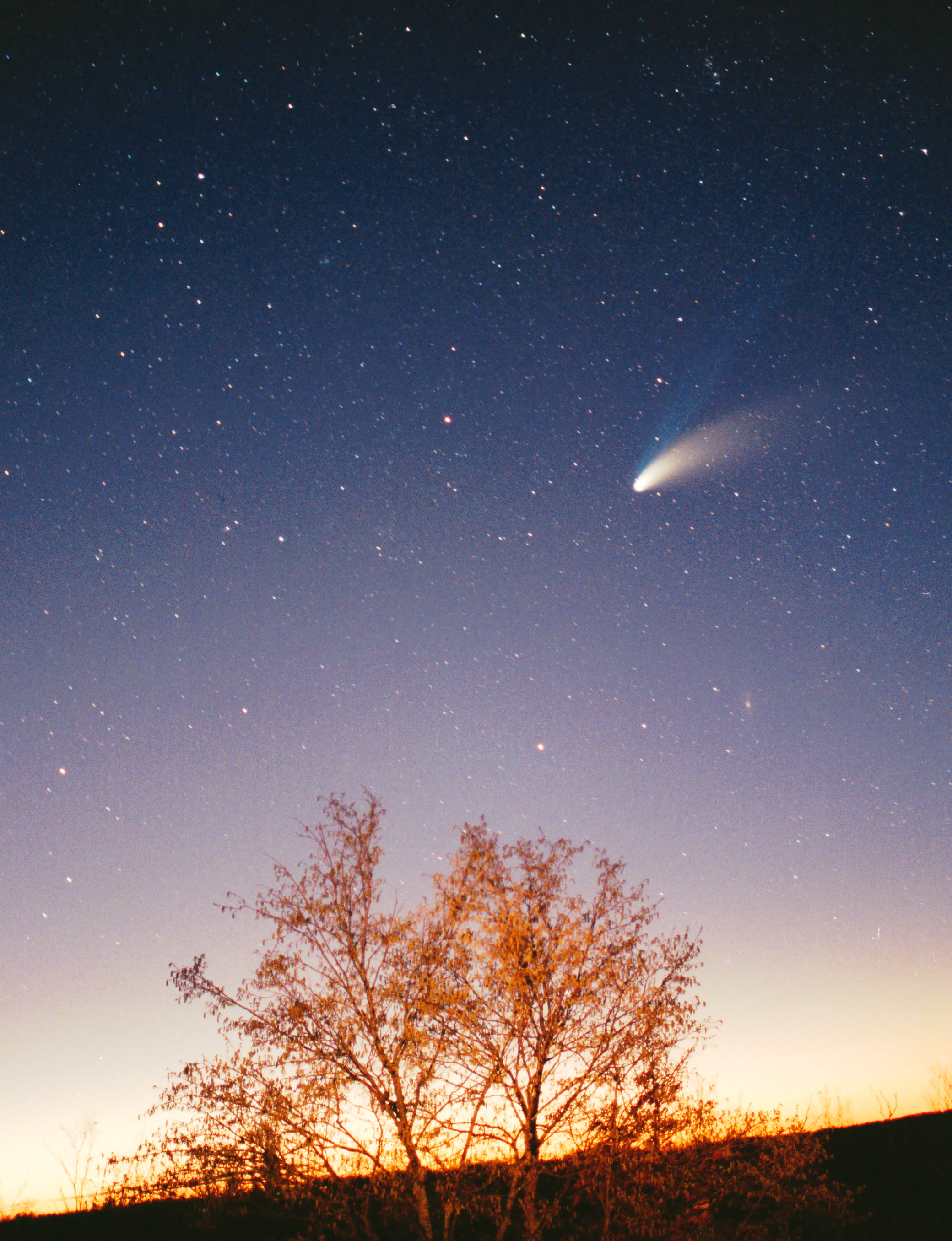 Photo of the comet Hale-Bopp above a tree. This picture was taken in the vicinity of Pazin in Istria/Croatia during a short easter holiday. The tree was illuminated using a small flashlight. The photo was taken using the following equipement: Lens: Nikon 35mm f/2 Film: Kodak Royal Gold 400 Exposure: 2 min at f/2